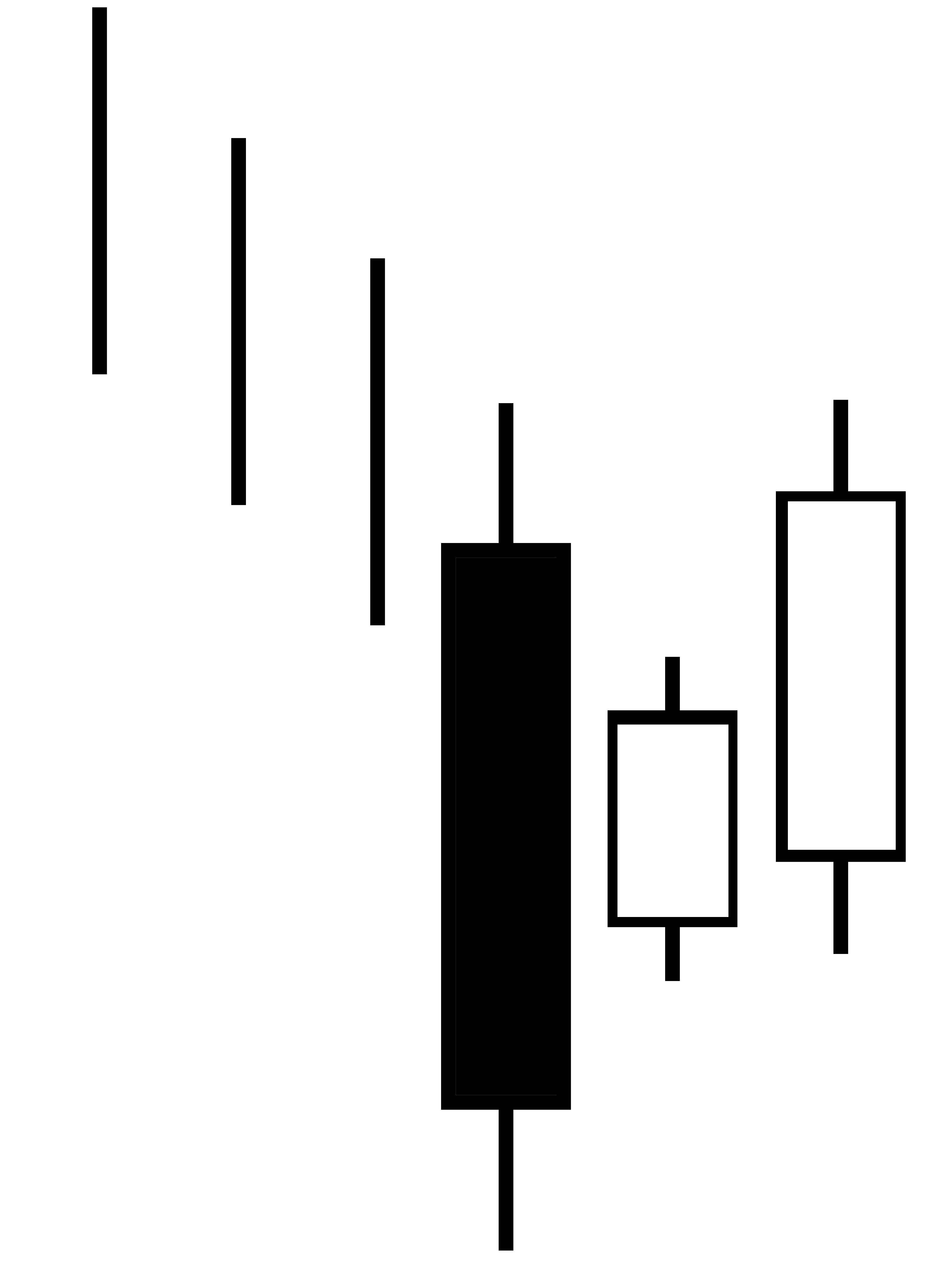 Bullish Three inside up